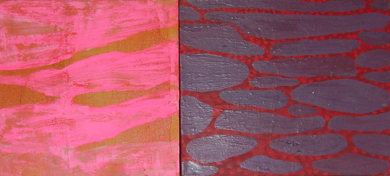 Art Work by Aggi Ásgerð Ásgeirsdóttir from the Faroe Islands. Title: Drifting. Created 2006.